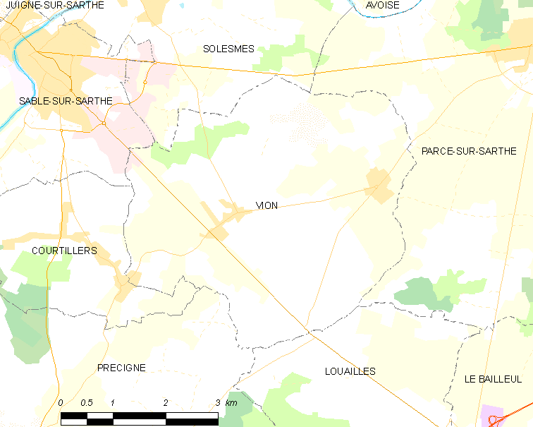 Map of French municipality